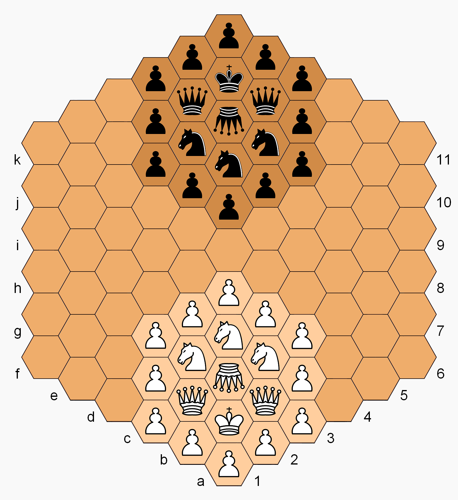 Troy starting position, improvising with piece representations for Greeks/Trojans. Made in PAINT using ProjChess colors and the great chess icons fashioned by David Benbennick (User:Dbenbenn).